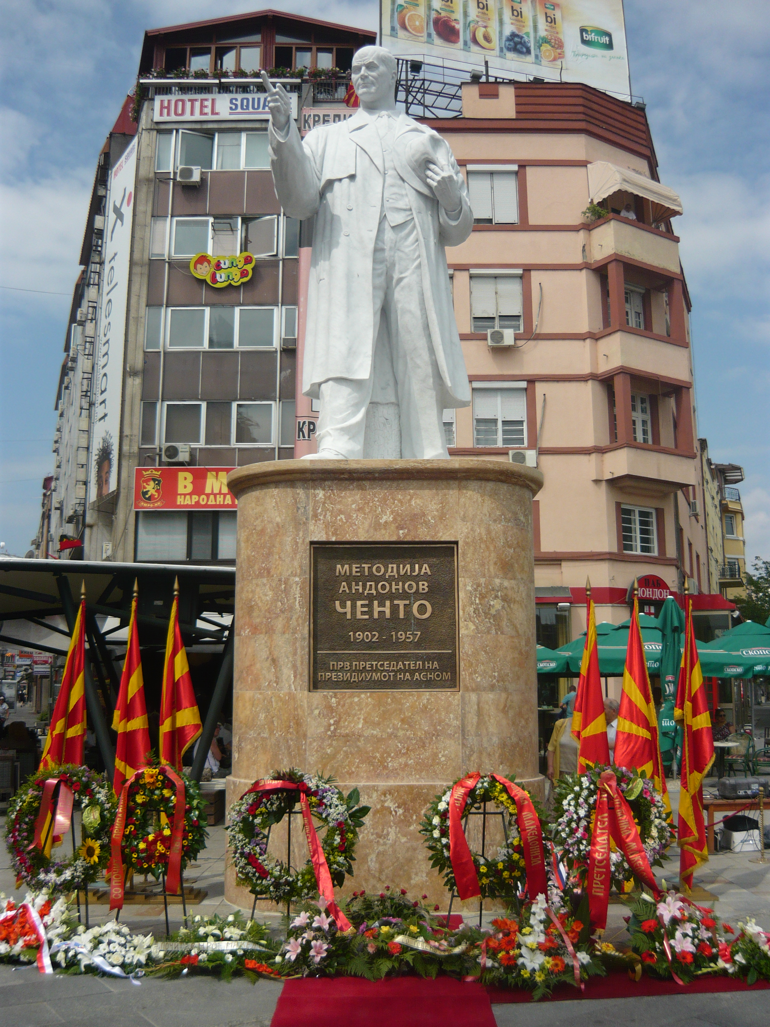 Marking of 2 August (Ilinden), the Macedonian national holiday, at Metodija Andonov Cento's monument on Macedonia Square in Skopje